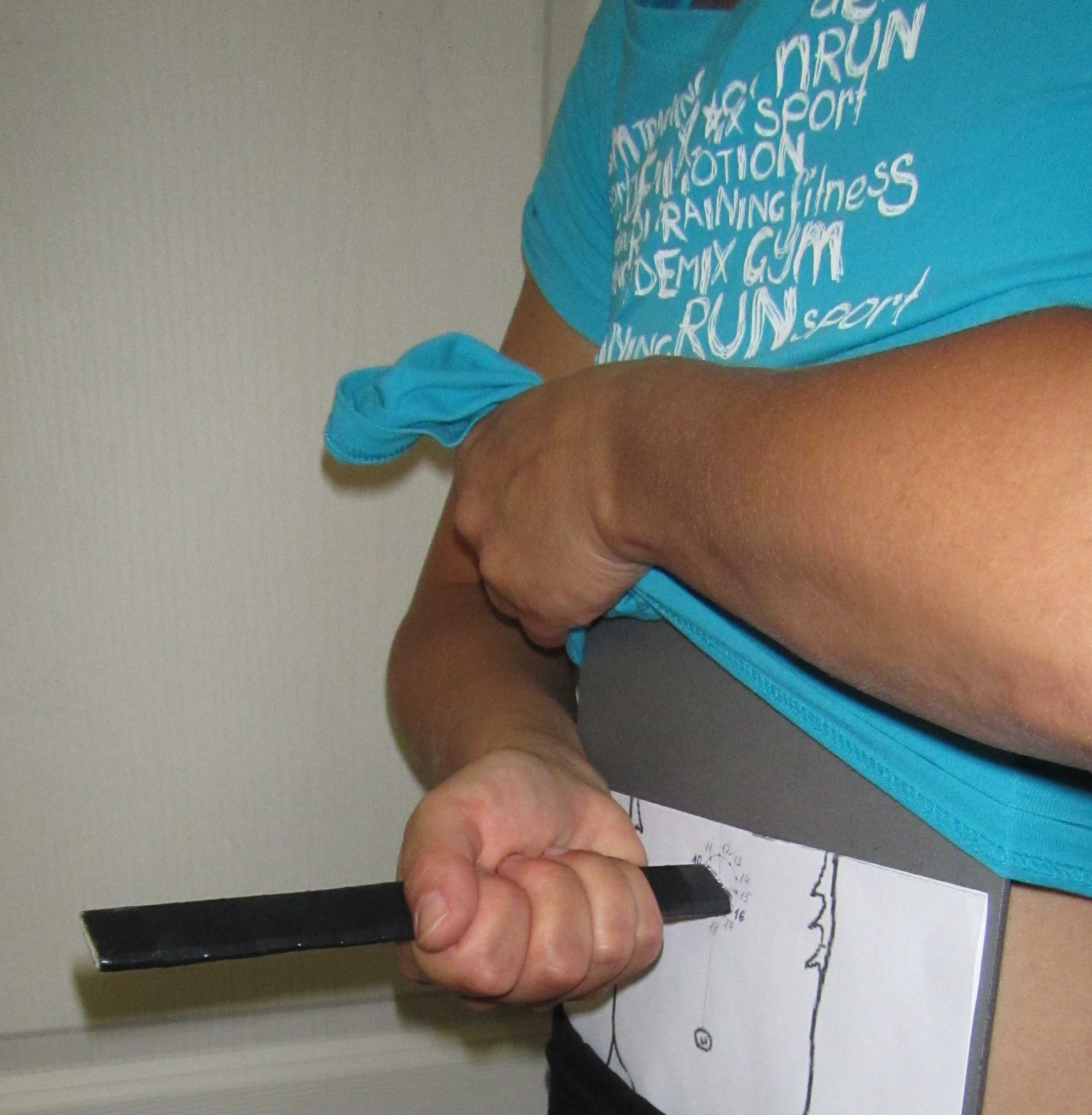 Живот, с поднятой рубашкой